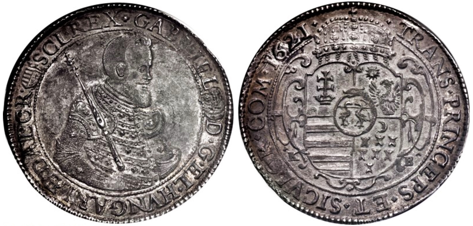 Thaler of Gabriel Bethlen minted in 1621 in Kremnica (42 mm)